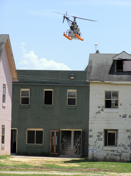 Photograph taken by International Aerial Robotics Competition organizer, Prof. Robert C. Michelson during the July 2006 event at Ft. Benning Georgia's Mckenna MOUT site. The aerial robot depicted is that of the Virginia Tech aerial robotics team.